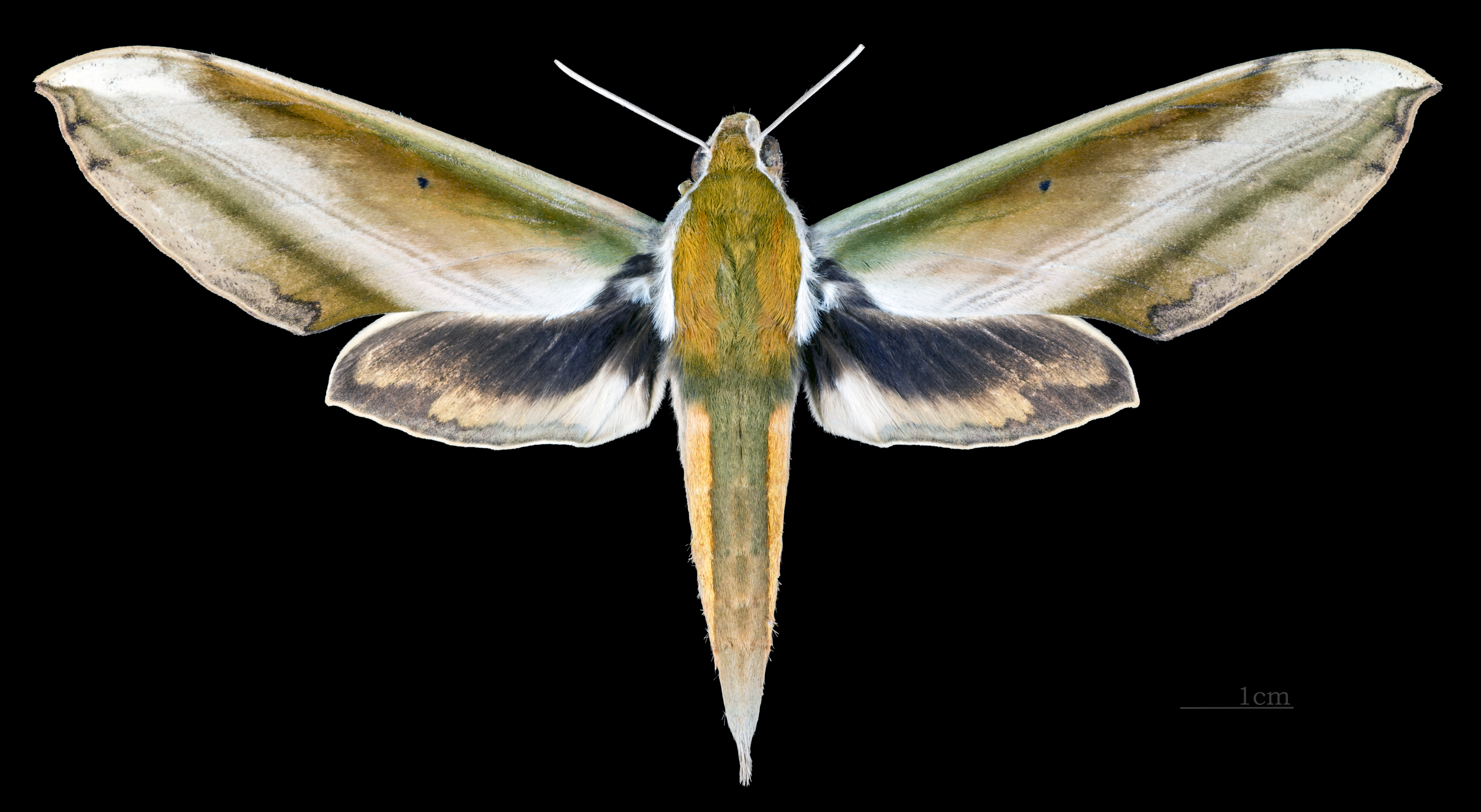 Yam hawk moth - Dorsal side Face dorsale Collection of the Mathematician Laurent Schwartz